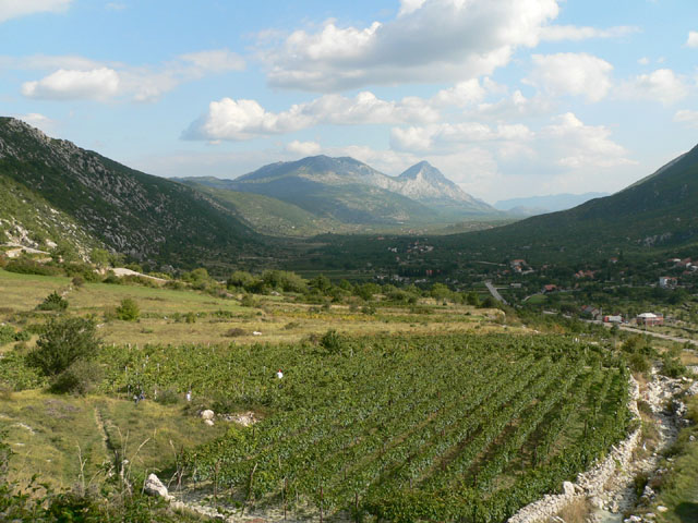 View towards Kozica